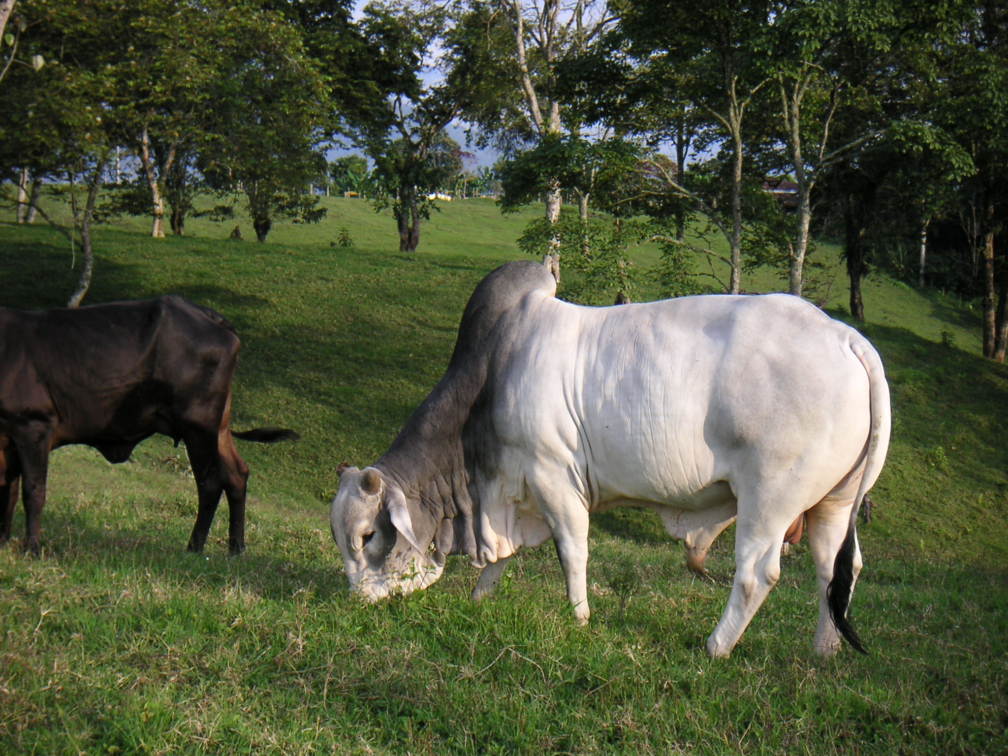 Description: Rind, Departamento de Quindio, Kolumbien Source: Louise Wolff (darina), March 2005